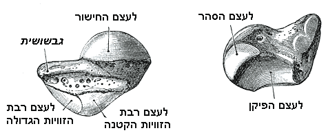 From Gray's Anatomy